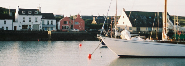 O'Sullivan's Bar, Crookhaven.